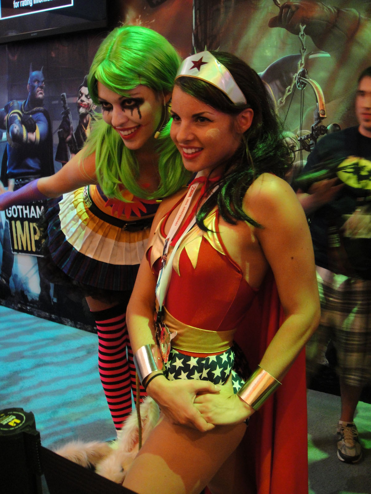 photo 2011 taken by Doug Kline If you're interested in higher resolution versions of my images, contact me via my profile page.